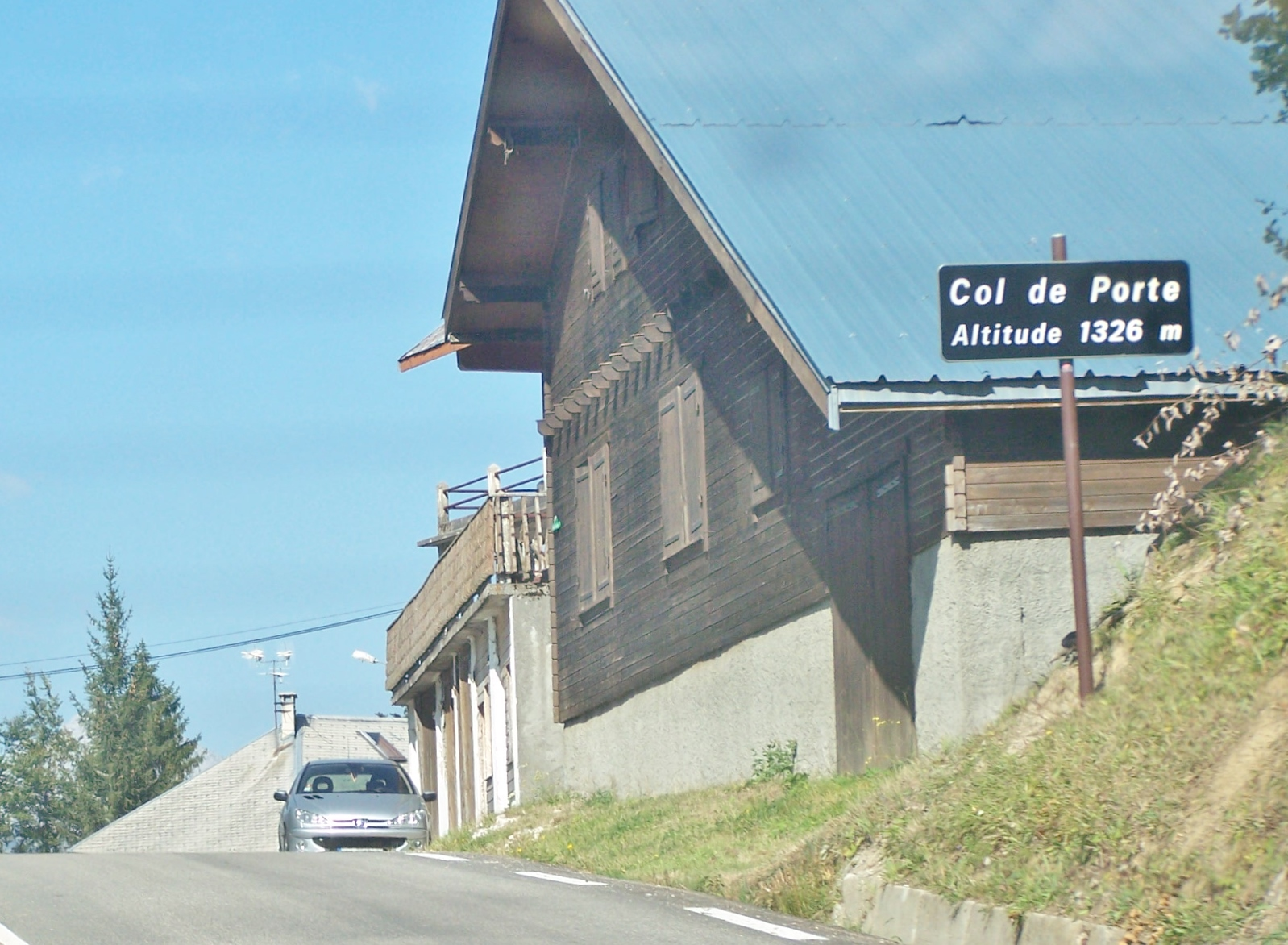 Roadsign of the col de Porte pass, in the Chartreuse mountains, in Isère, France.